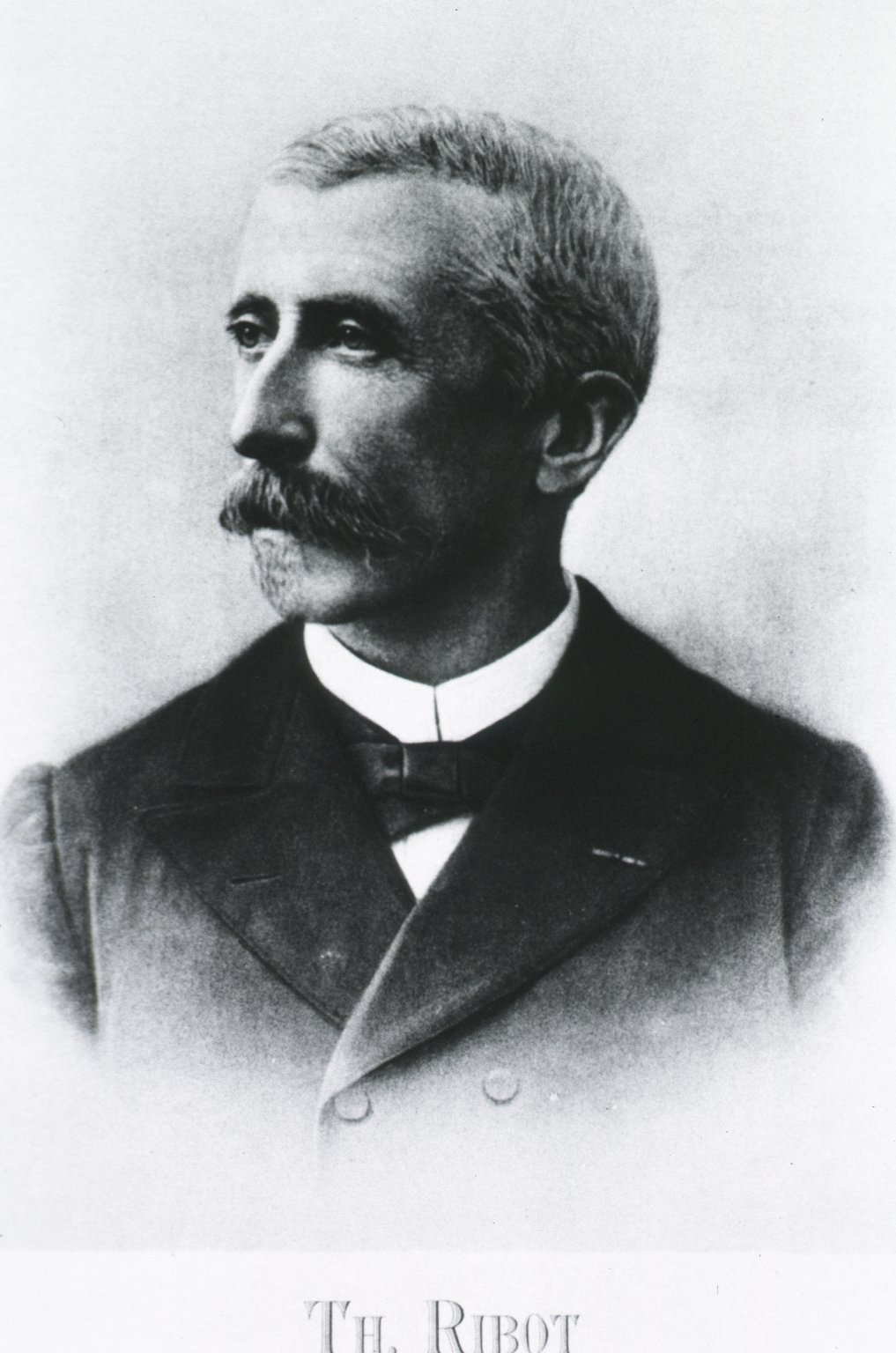 Théodule-Armand Ribot